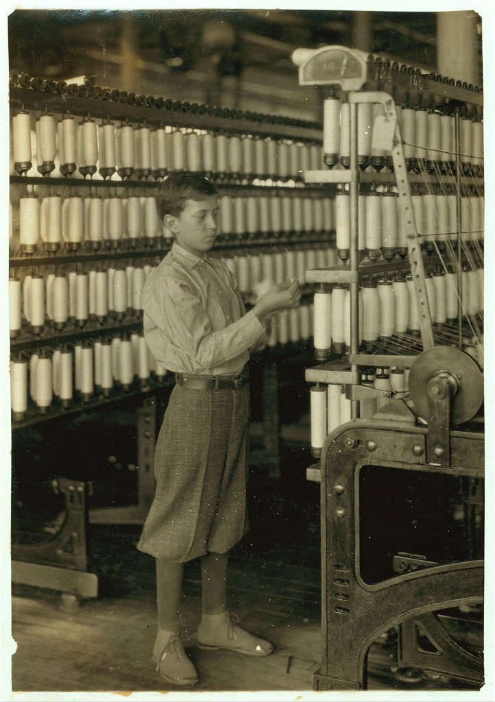 Back boy - 14 years old - Mule room. Berkshire Cotton Mills. Location: Adams, Massachusetts / Lewis W. Hine.